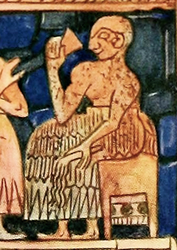 Shell plaque from a lyre, PG 1332, Ur Royal Cemetery (detail)